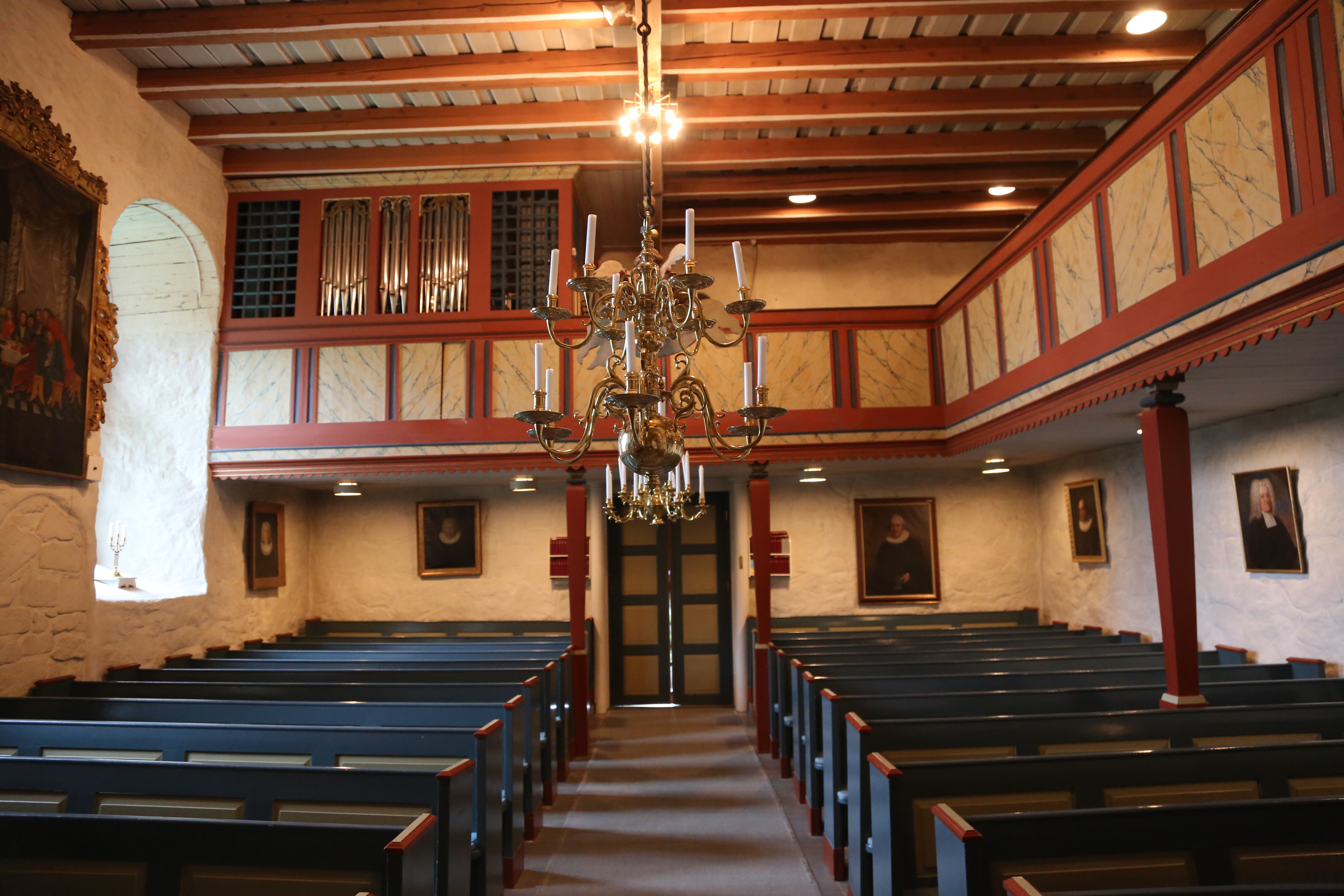 Hobøl church. Østfold, Norway. Interior